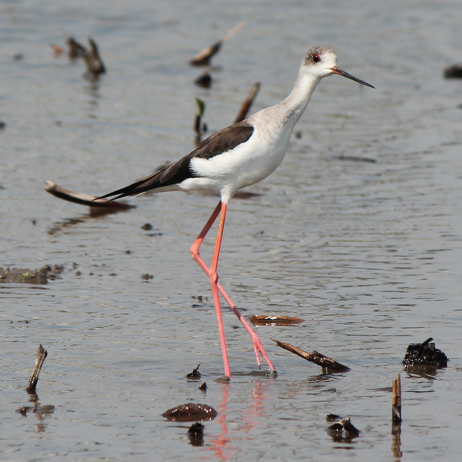 Black-winged Stilt (Himantopus himantopus (Linnaeus, 1758) ), in Japan.